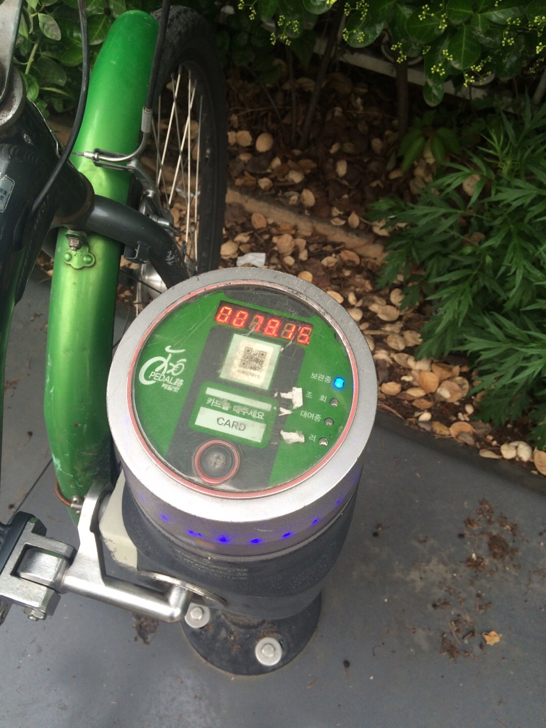 Pedalro rental device